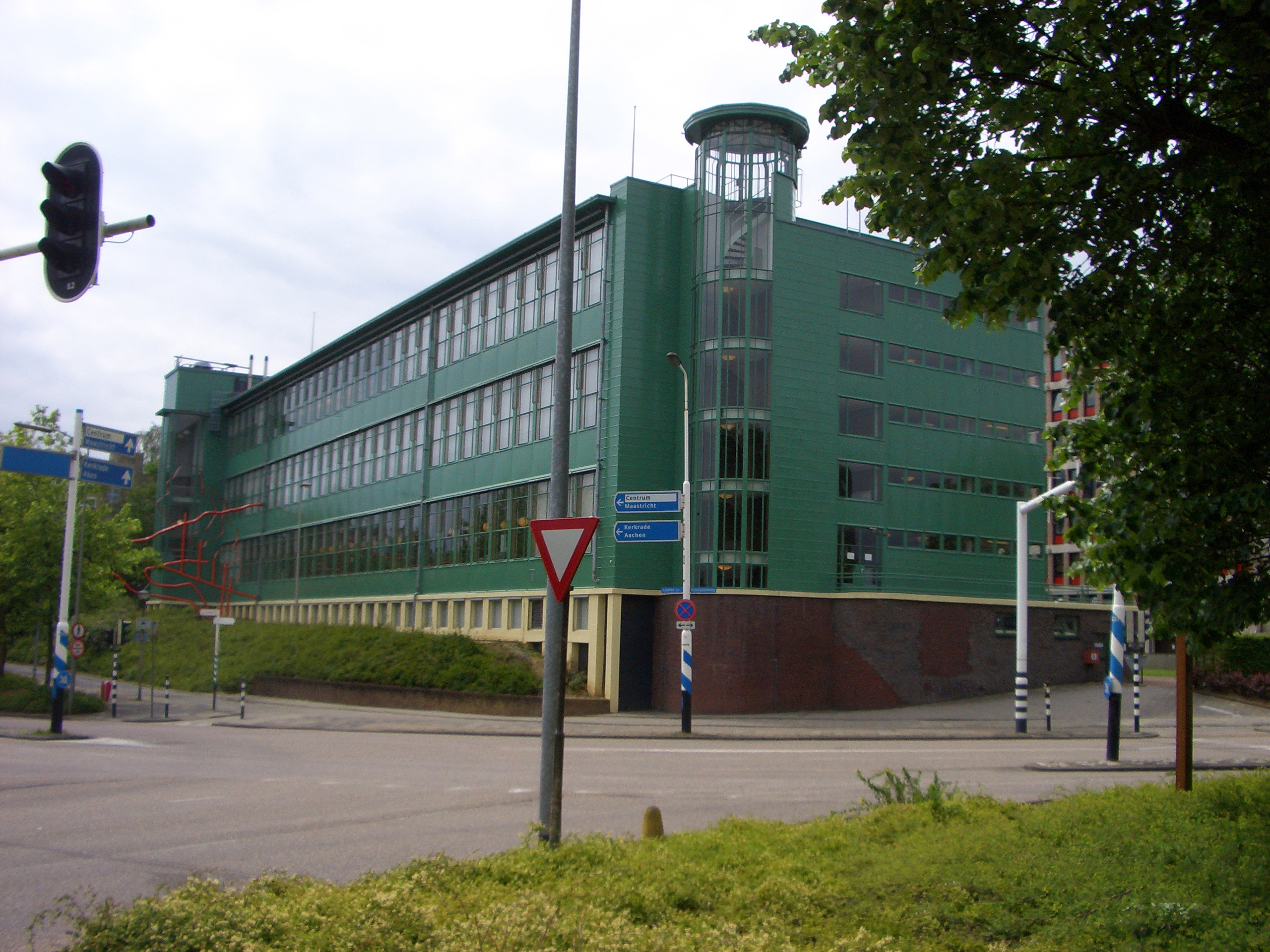 This picture of the former office of Oranje Nassaumijnen was taken by me, Maarten van Wesel, in Heerlen